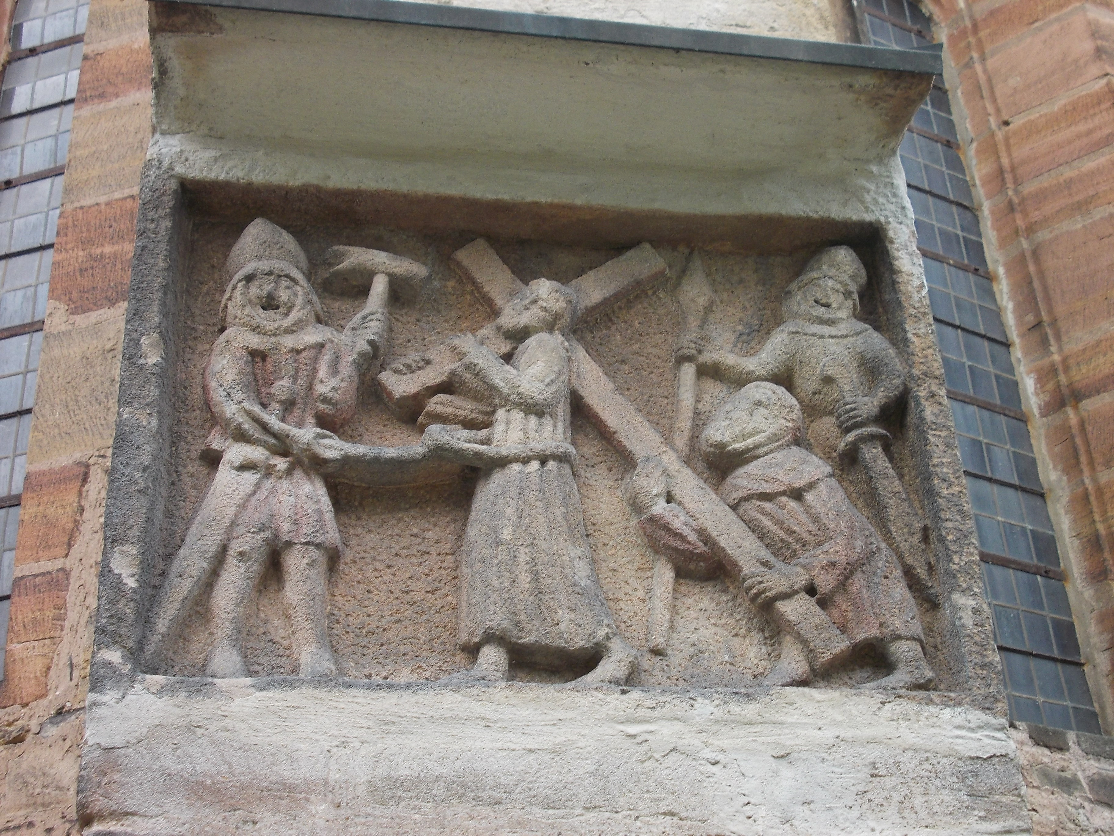 Reliefs of the Passion of Christ at the choir of St. Vitus' Church in Veitsberg (Wünschendorf/Elster, Greiz district, Thuringia)